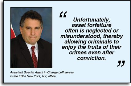 An image from a United States Federal Bureau of Investigation pamphlet entitled Money Laundering and Asset Forfeiture: Taking the Profit Out of Crime By Douglas Leff, J.D. (FBI agent)